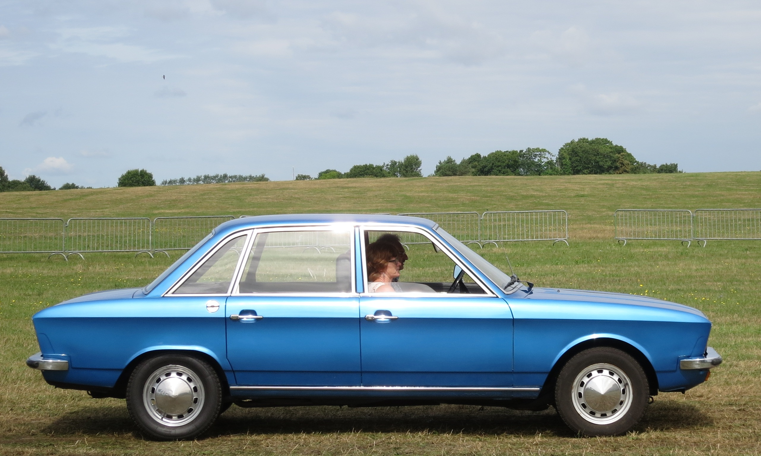 Volkswagen K70 in profile in Belgium